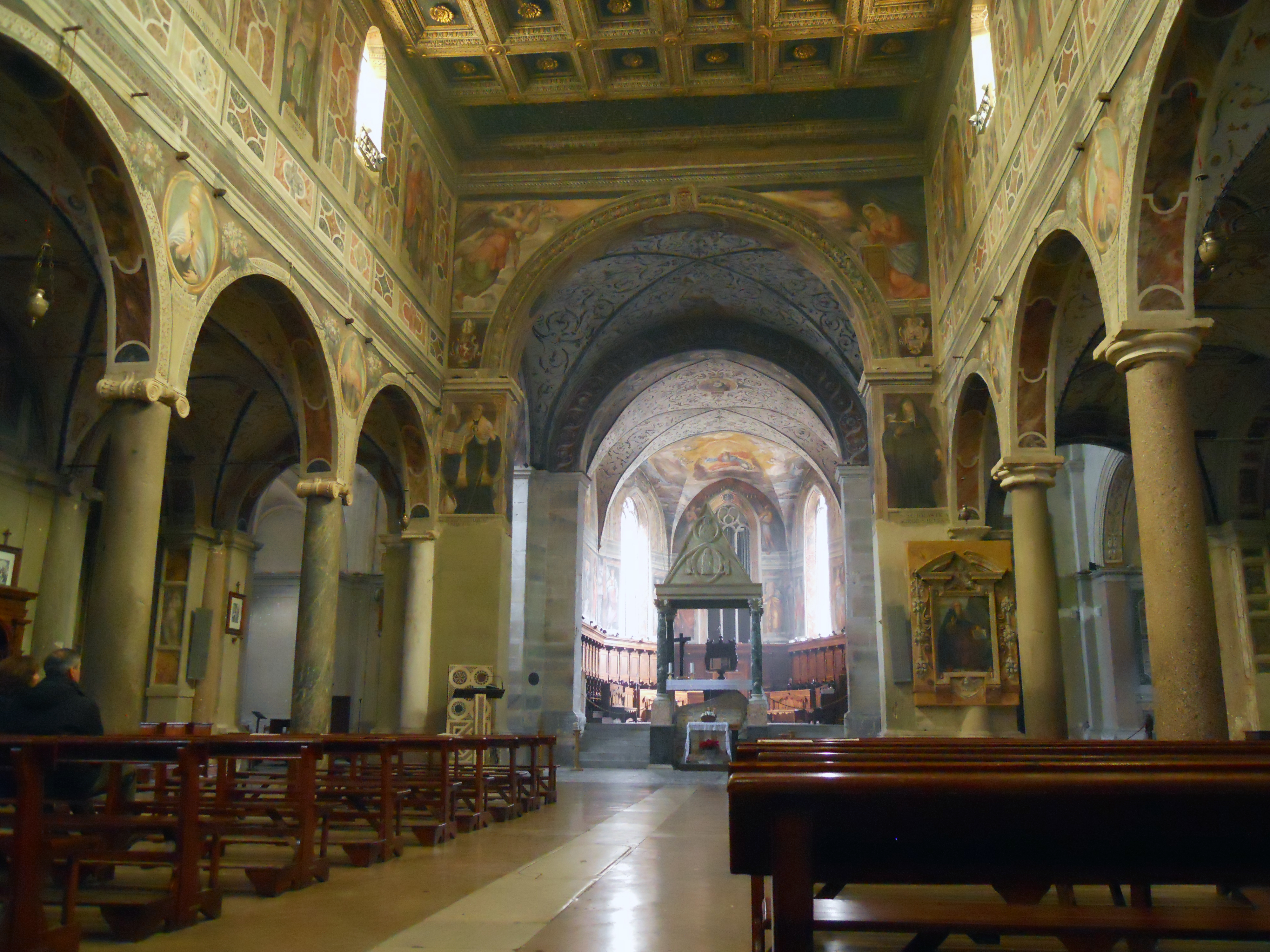 Interior of Farfa Abbey's church (Lazio, Italy)